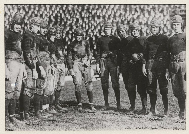 1920 University of California Berkeley Golden Bears football team aka The Wonder Team. From left to right: Brick Muller, Bob Berkey, Duke Morrison, Charley Erb, Pesky Sprott, Crip Toomey, Dan McMillan, Stan Barnes, Lee Cramer, George "Fat" Latham, and Cort Majors